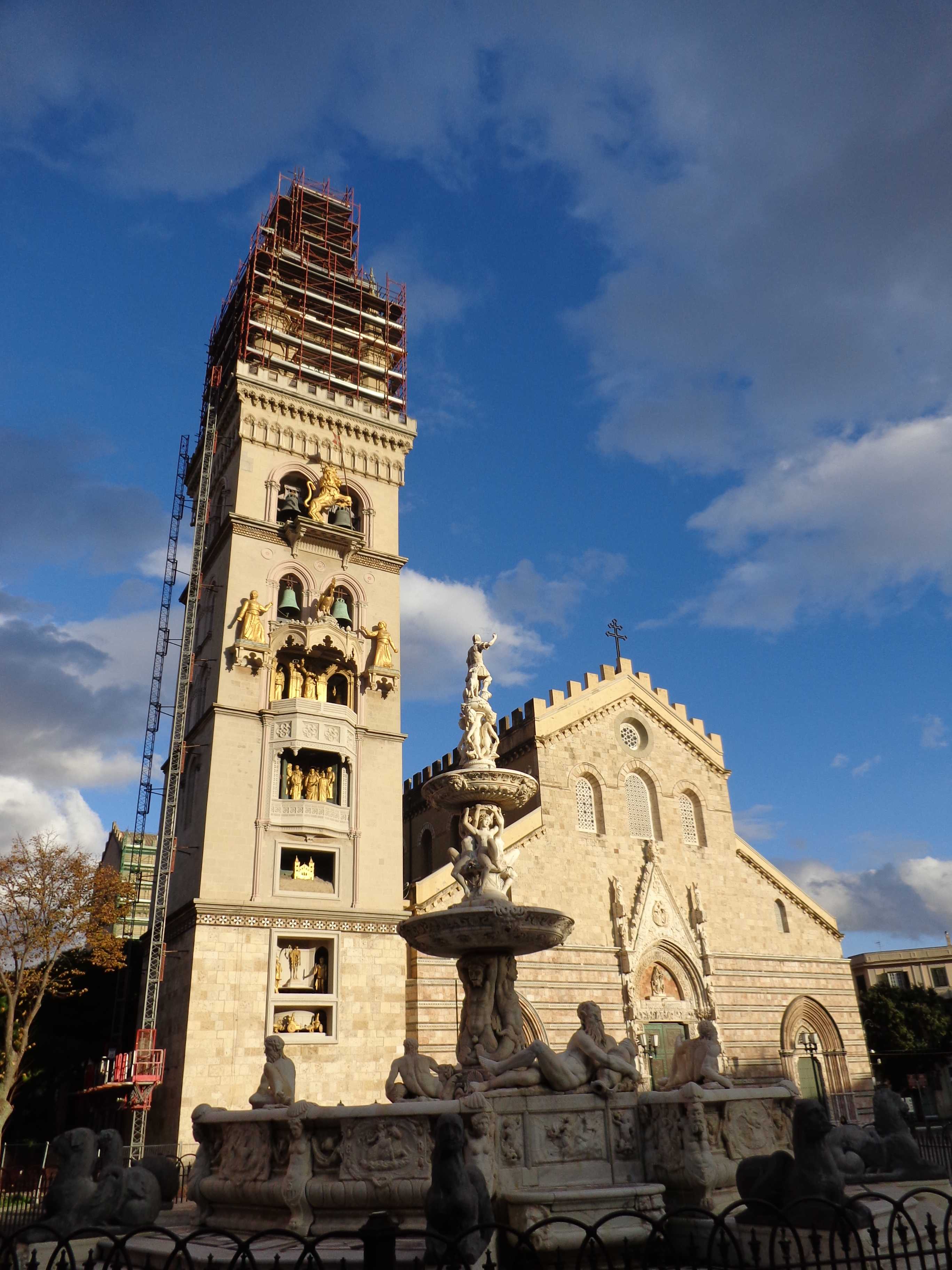 Messina cathedral